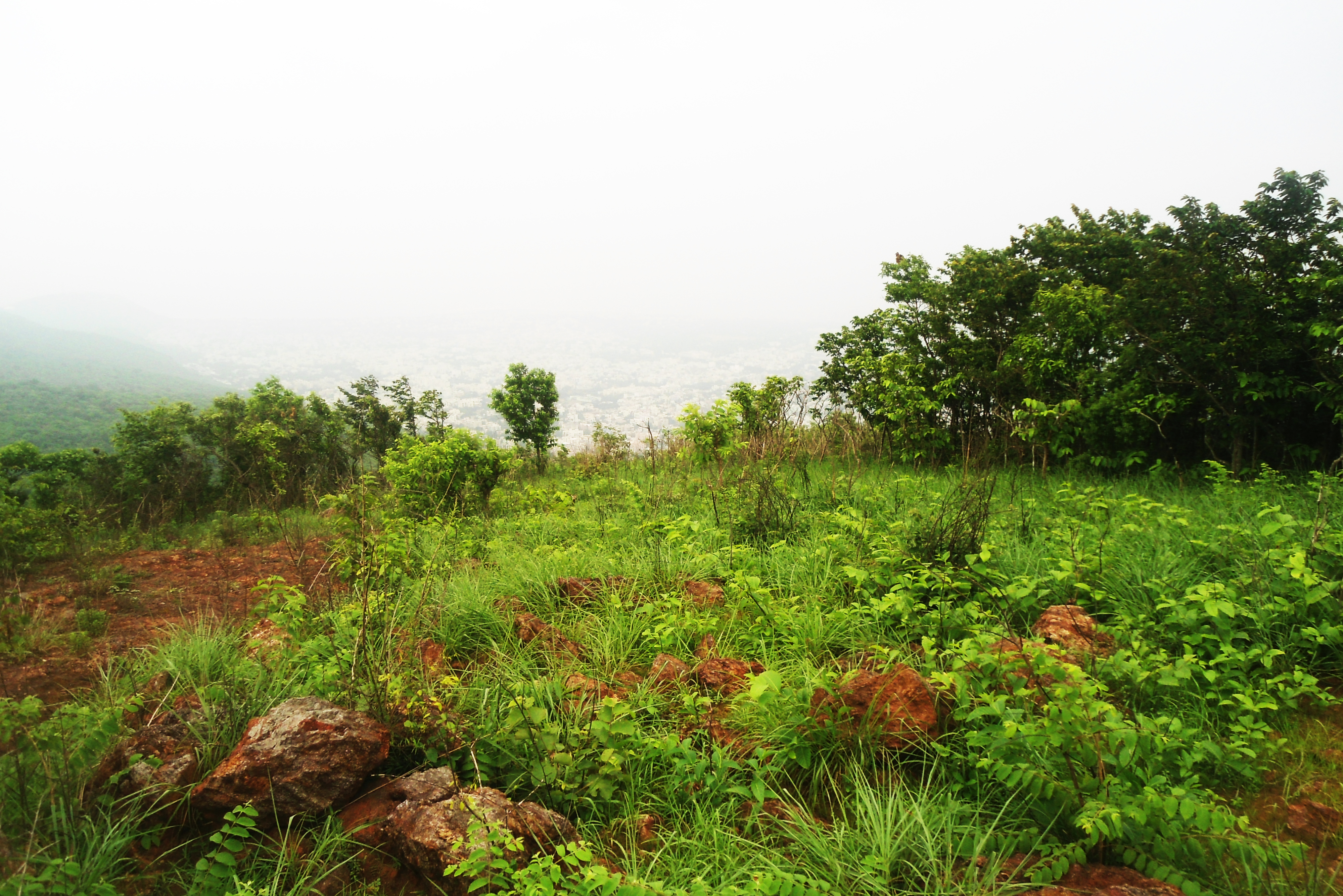 View on Simhachalam Hill during a rainy day in Visakhapatnam